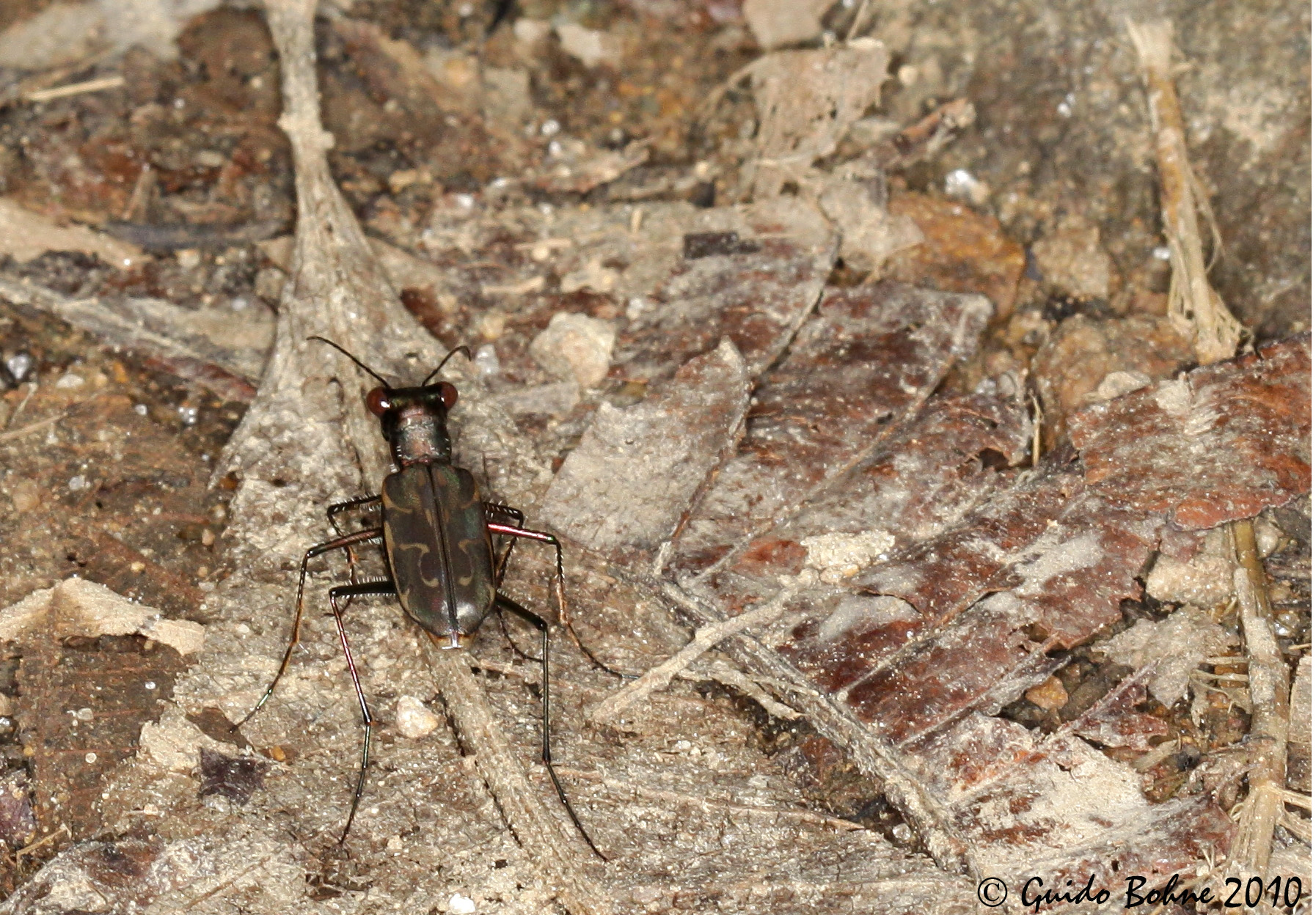 Cicindela heros at Bogani Nani Wartabone National Park, Gorontalo